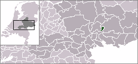 Locator map of Dutch municipalities in Gelderland (LocatieDoesburg.png)